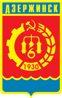 Dzerzhinsk (Nizhny Novgorod oblast), coat of arms